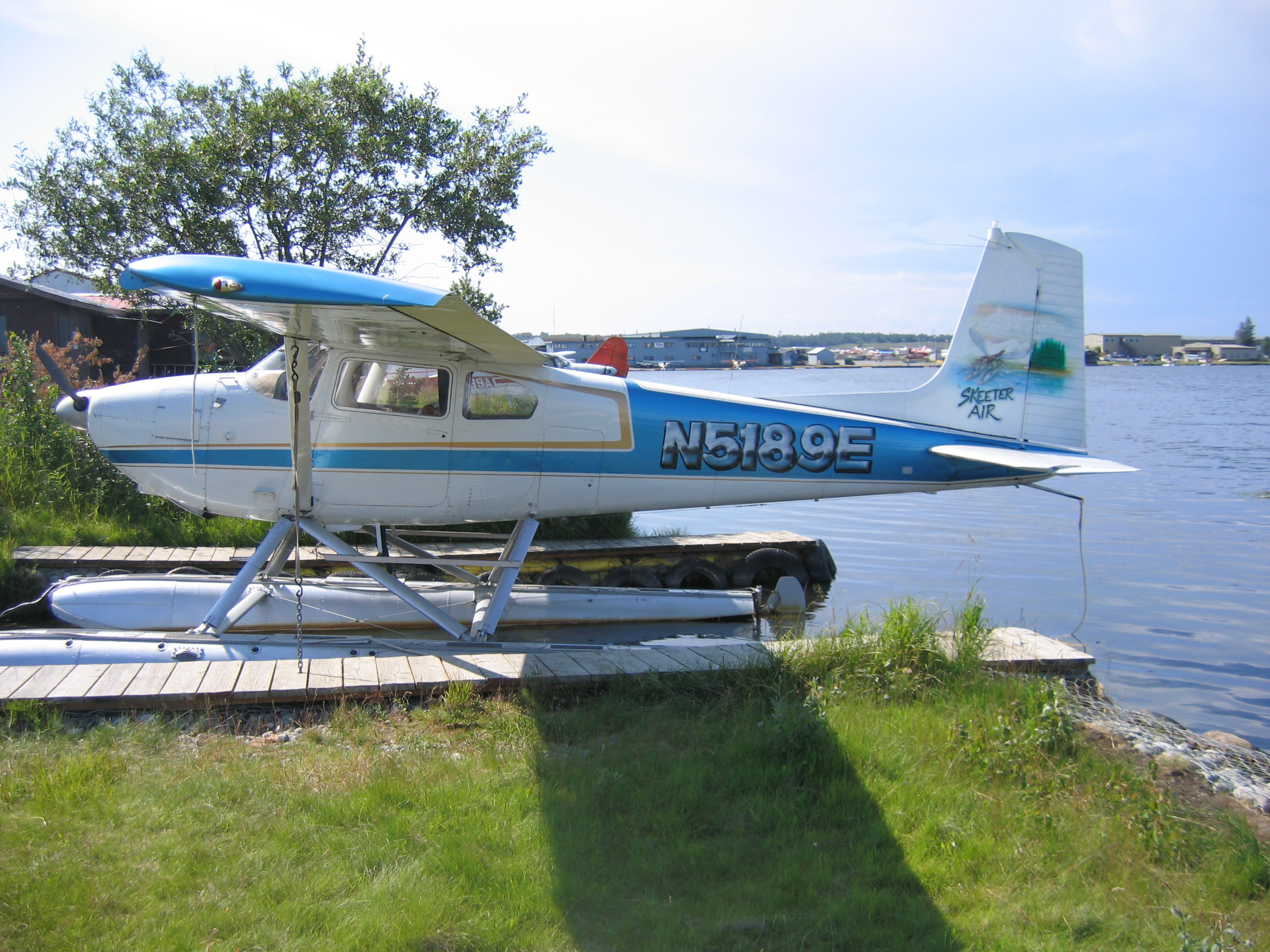 1959 Cessna 180B on floats